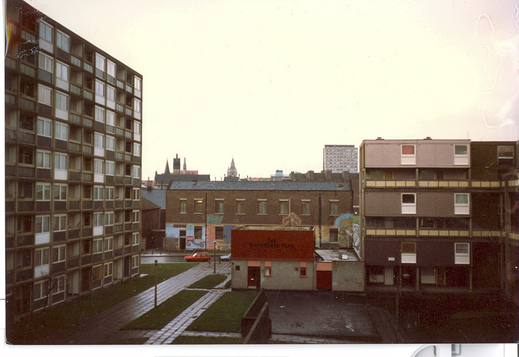 View from Harvington Walk of Chequered Flag Pub, 1988